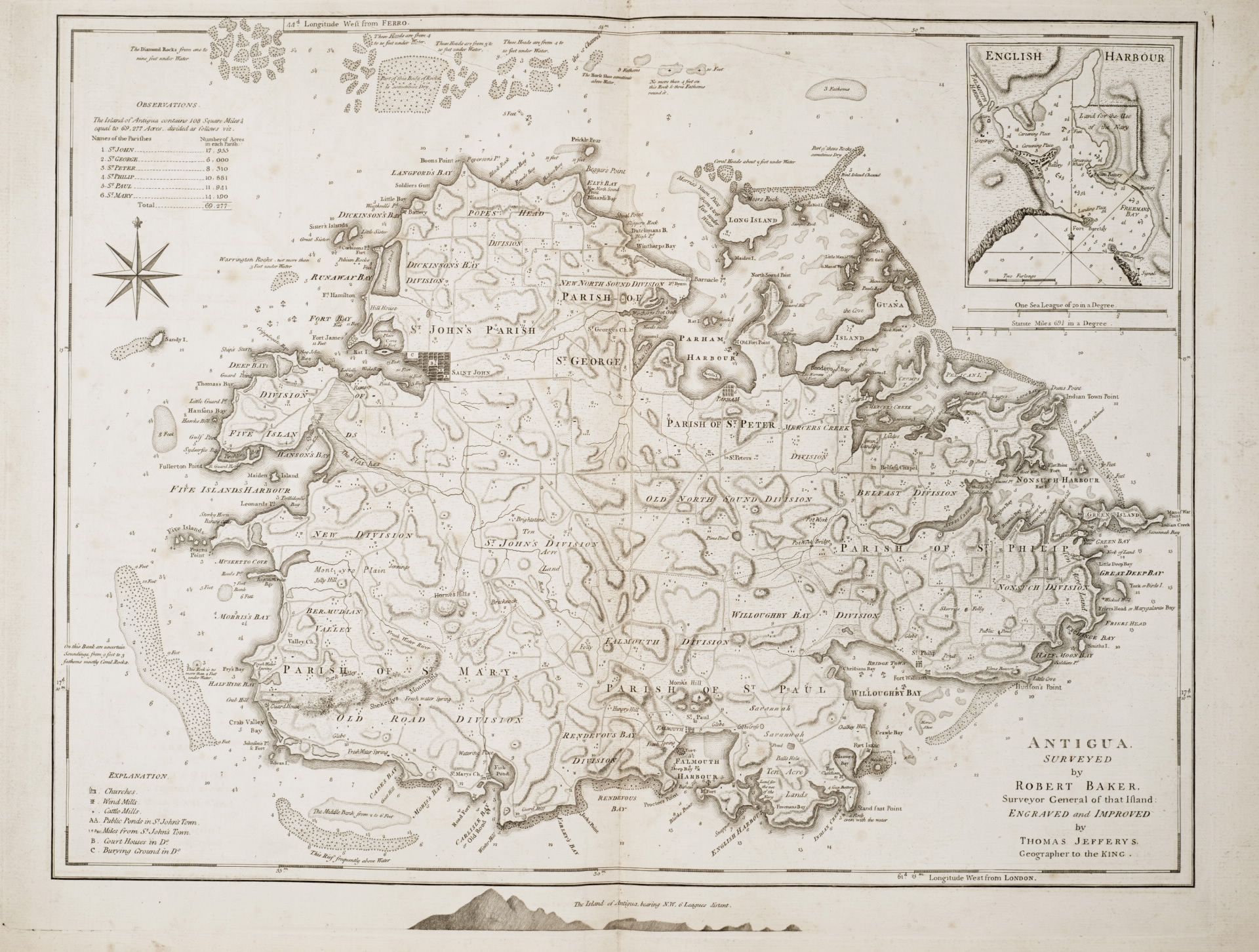 Antigua surveyed by Robert Baker.